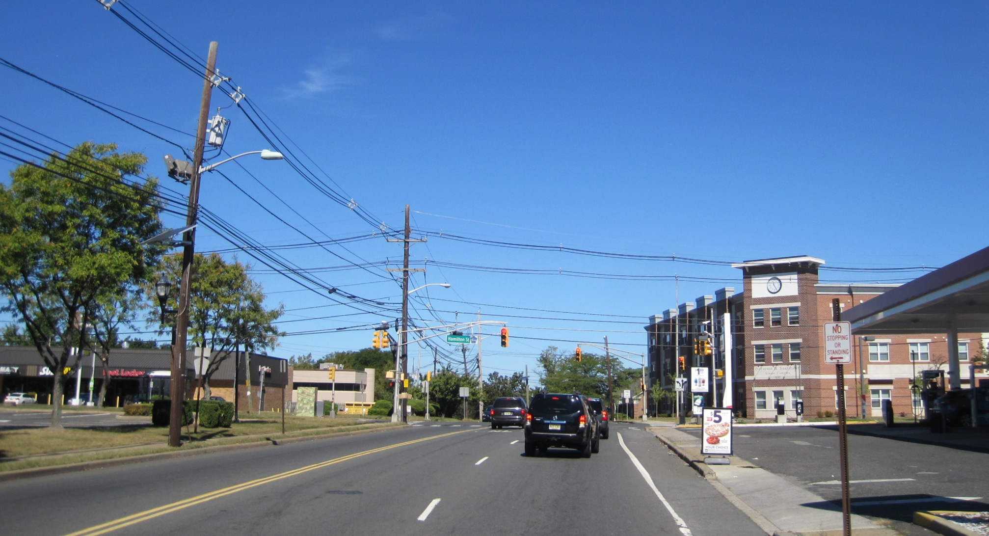 Photograph showing the center of Somerset, New Jersey, a census designated place within Franklin Township, Somerset County. Photo taken along northbound Franklin Boulevard (County Route 617) approaching Hamilton Avenue (CR 514).